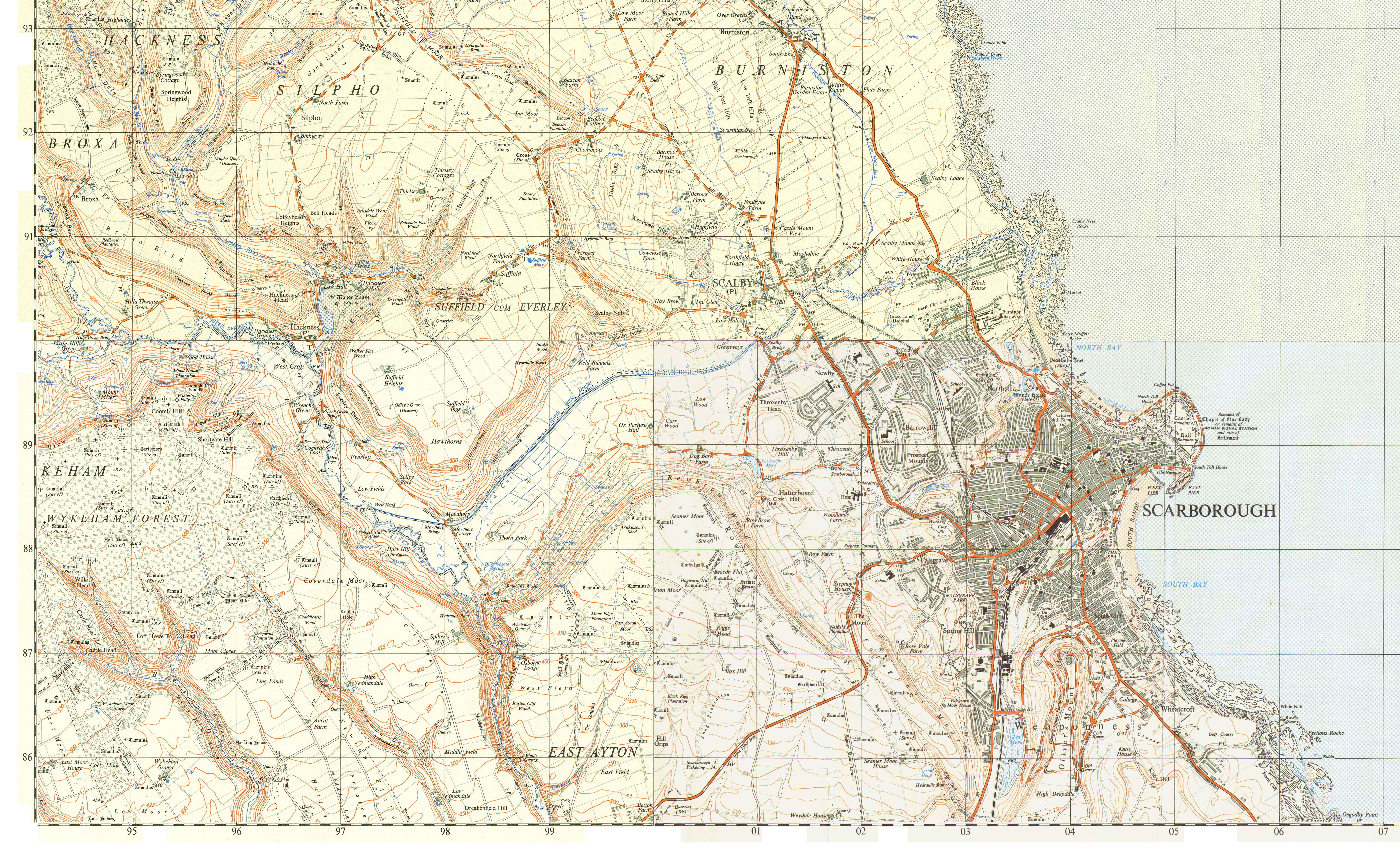 Composite map of Scarborough, Scalby and the Sea Cut, Yorkshire, assembled from OS 1:25,000 mapsSE 99 98 TA 08, published 1954